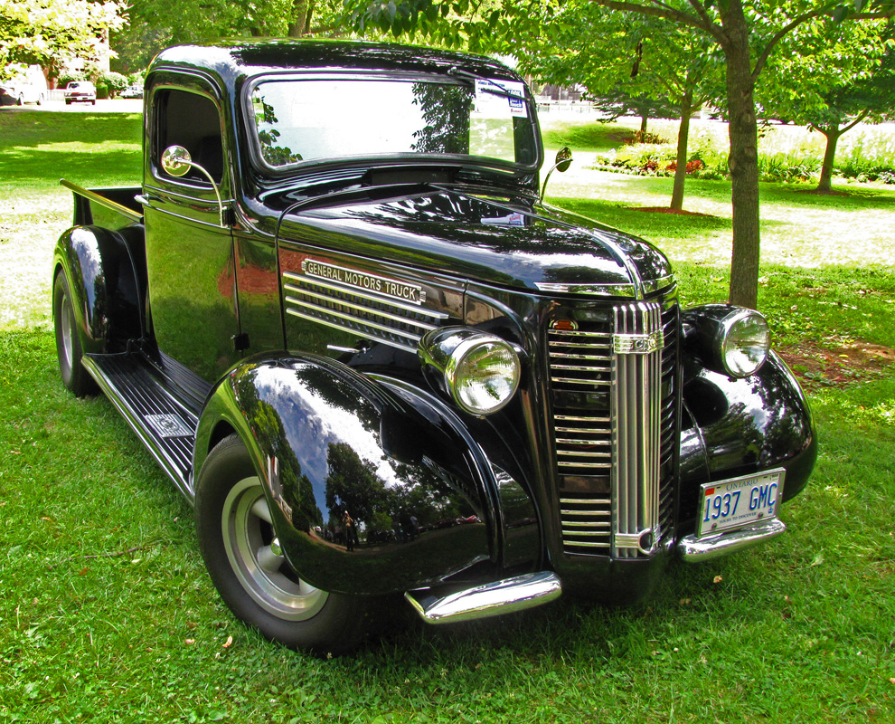 A rare GM pickup from Ontario that I saw at Yoctangee Park in Chillicothe, Ohio.